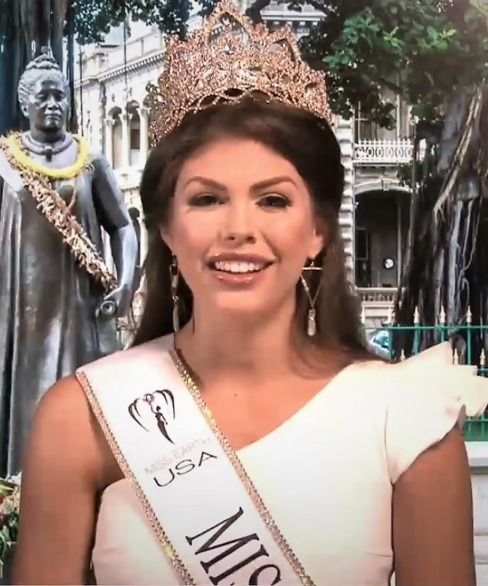 What it's like to be Libby Hill, Miss Earth USA (Community Matters) ThinkTech is a Hawaii 501(c)(3) nonprofit. Please support us by making a donation. We need heroes to remind us to preserve our planet. Libby Hill is Miss Earth USA. She will discuss what it's like to be Miss Earth USA and how we can all collaborate in these difficult times to protect our planet The host for this episode is Jay Fidell. The guest for this episode is Libby Hill. ThinkTech Hawaii streams live on the Internet from 10:00 am to 5:00 pm Hawaii time most weekdays, then we stream our earlier shows all night long. Check us out any time for great content and great community. Our vision is to be a leader in shaping a more vital and thriving Hawaii as the foundation for future generations. Our mission is to be the leading digital media platform raising public awareness and promoting civic engagement in Hawaii.